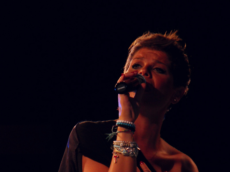 Alessandra Amoroso, an italian singer, singing in Torino, during the "Stupida Tour